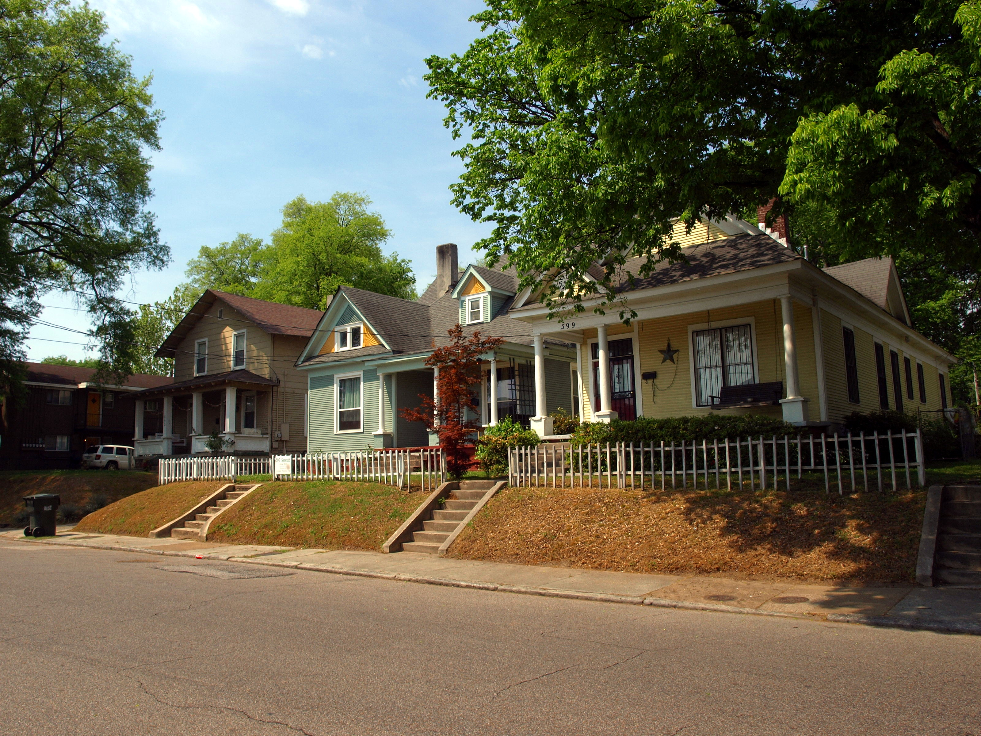 593-599 North 7th Street in Memphis, Tennessee, part of the Greenlaw Addition Historic District, listed on the National Register of Historic Places.